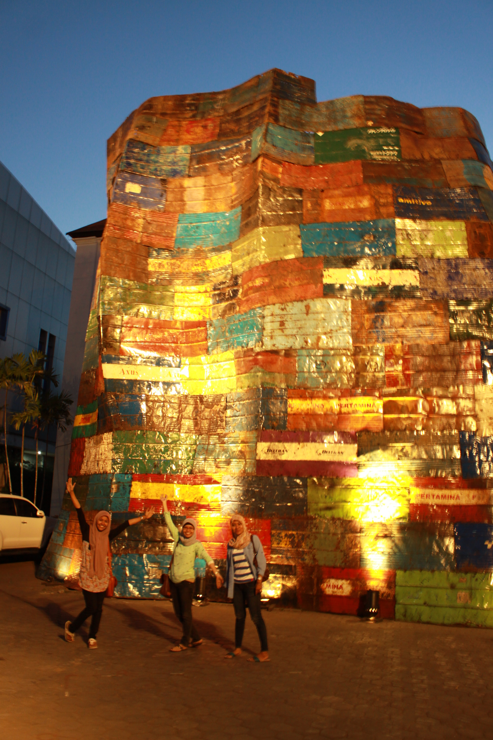 The Art Fair of the artists, held annually in Taman Budaya Yogyakarta, Indonesia